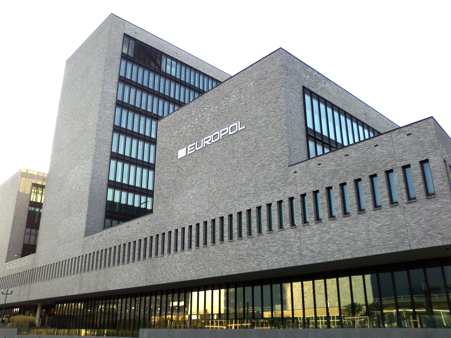 Europol building, The Hague, the Netherlands, is the headquarters of Europol, a European organization, in which national police forces cooperate, similar to Interpol.